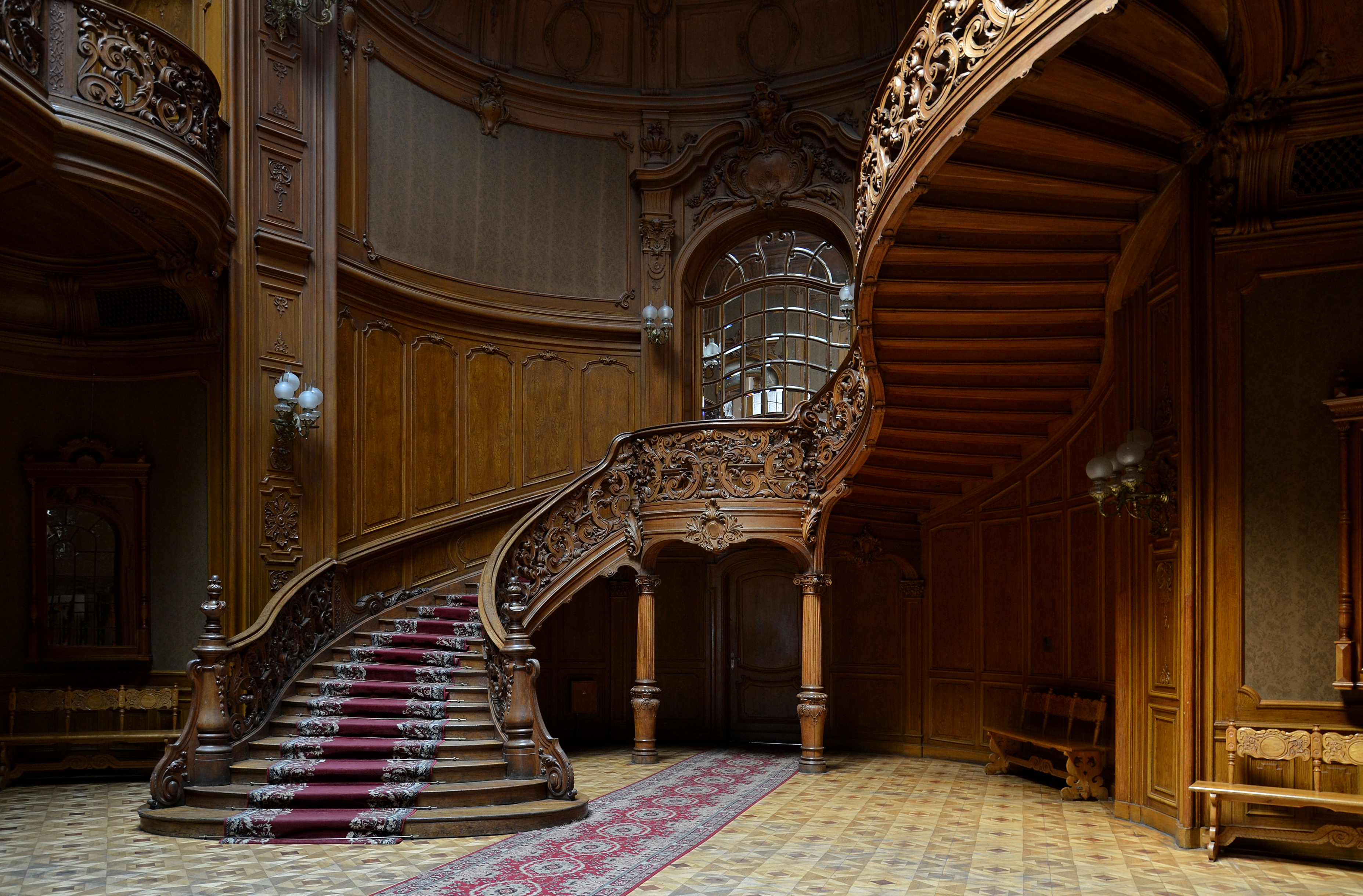 House of scientists, Lviv, Ukraine